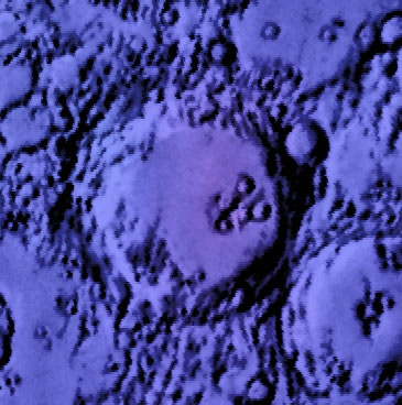 Bose crater